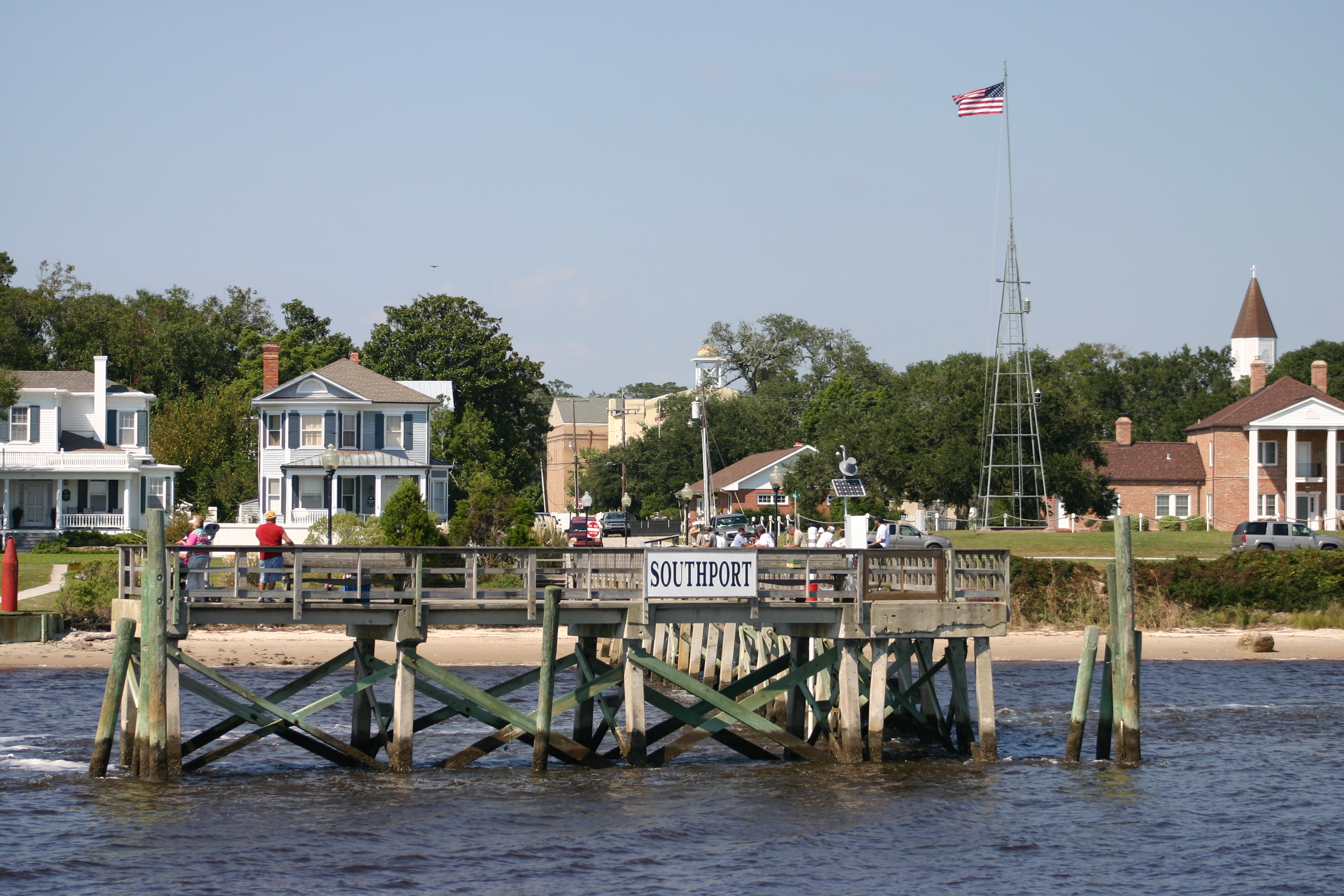 View of the Southport waterfront from the Cape Fear River.